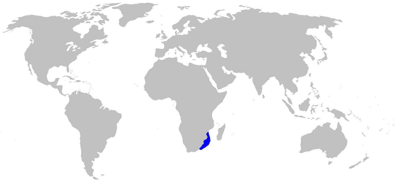 Distribution map for Halaelurus lineatus